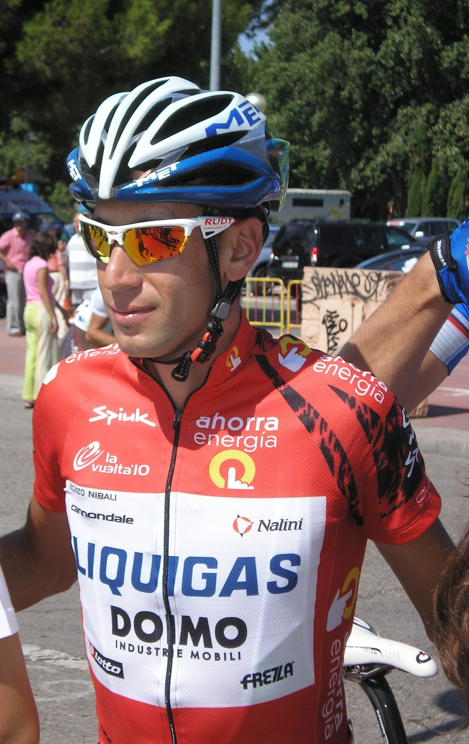 Vincenzo Nibali, winner of the 75th Vuelta a España, 2010.